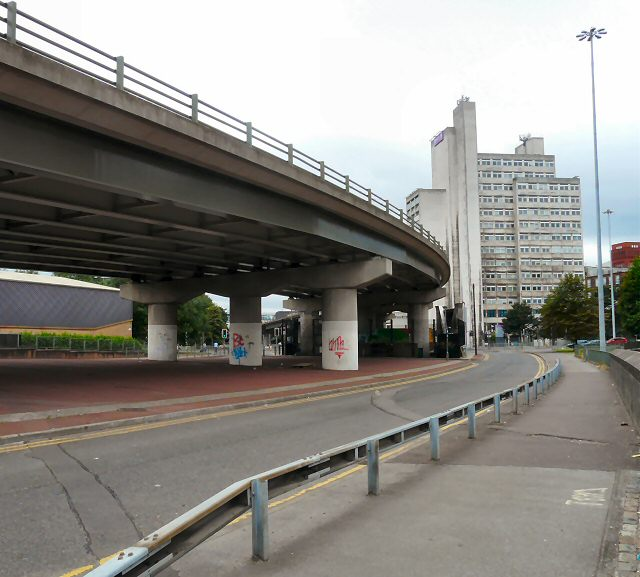 Mancunian Way Looking underneath the Mancunian Way East of London Road.